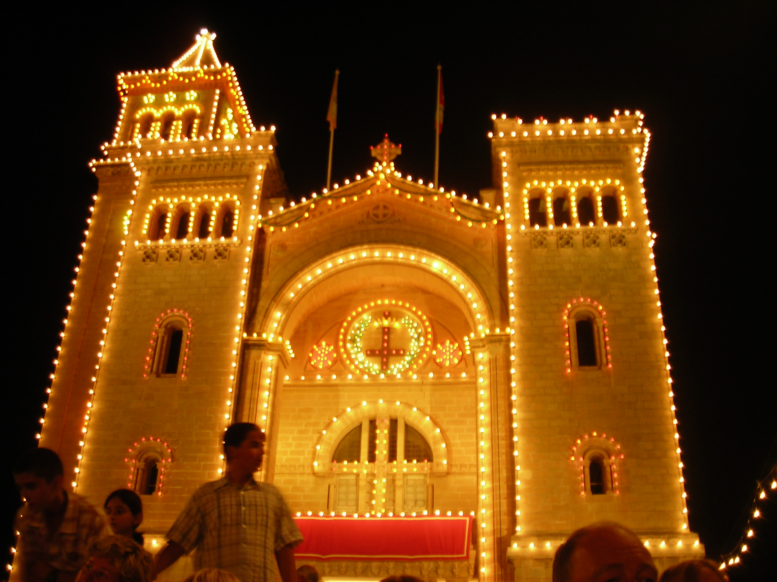 The Church of Birzebbuga at night during the annual festa